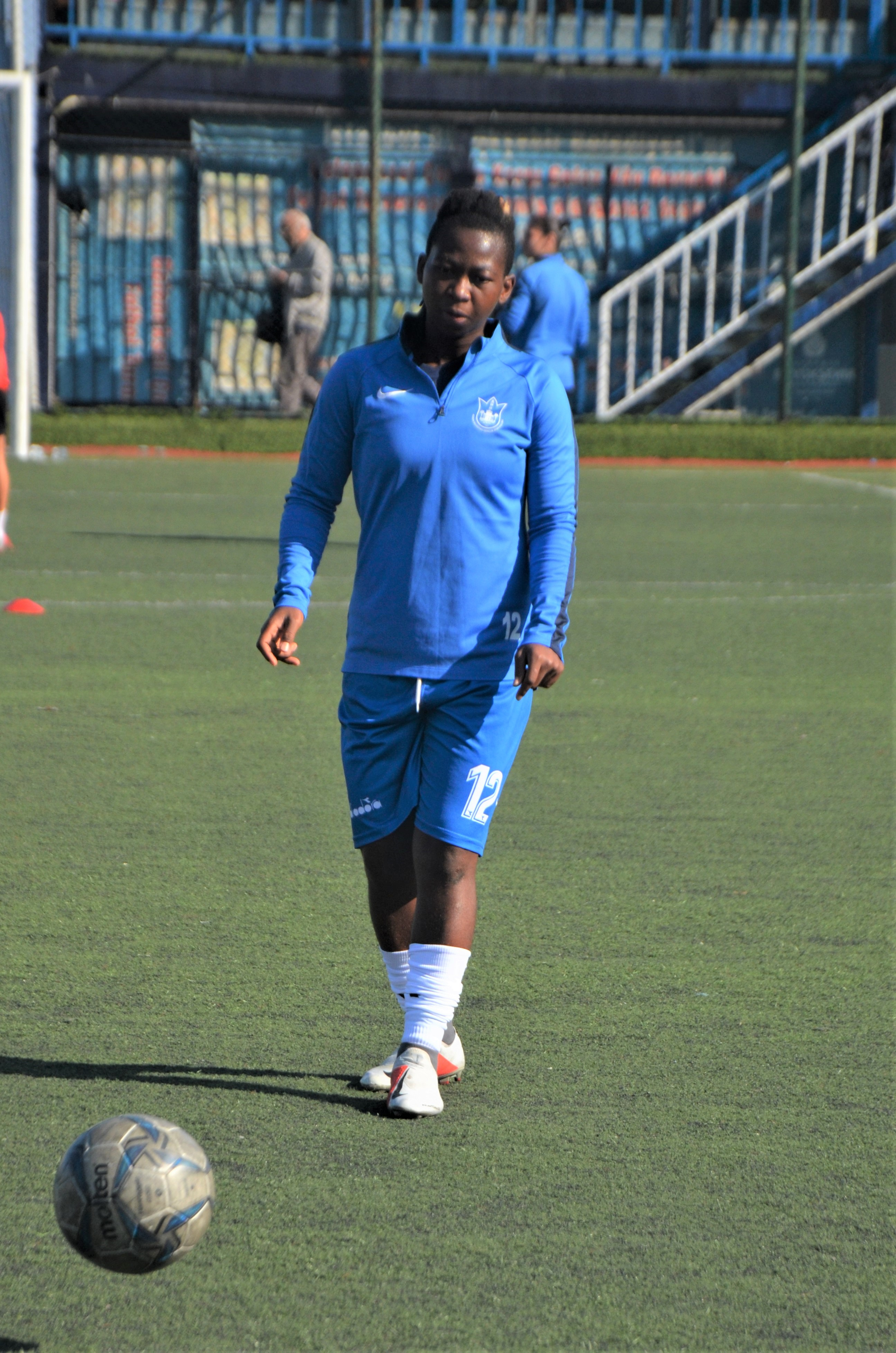 Joy Bokiri of Konak Belediyespor in the 2019-20 Turkish Women's First Football League